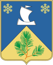 Kuzomen (Murmansk oblast), proposal coat of arms